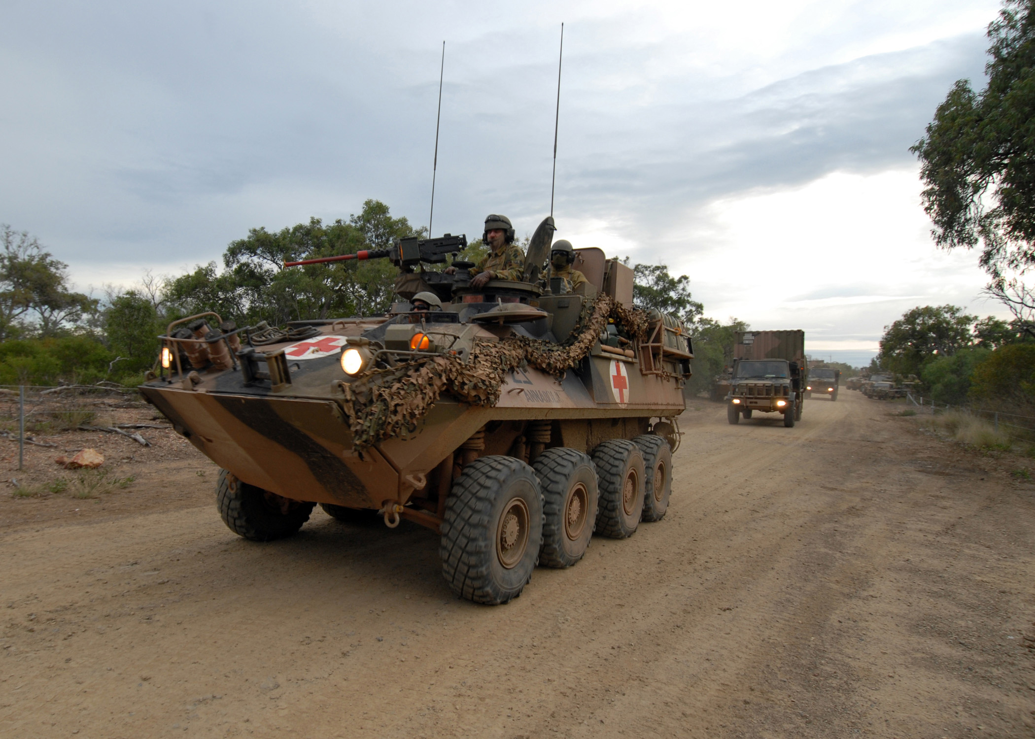 06/20/07 - Australian Defense Force soldiers from 2/14th Light Horse Regiment maneuver from Sabrina Point to Shoalwater Bay Training Area, Australia, June 20, 2007, during exercise Talisman Sabre 2007. The biennial exercise is designed to train Australian and U.S. forces in planning and conducting combined task force operations, which will help improve combat readiness and interoperability. (U.S. Navy photo by Mass Communication Specialist 1st Class James E. Foehl) (Released)